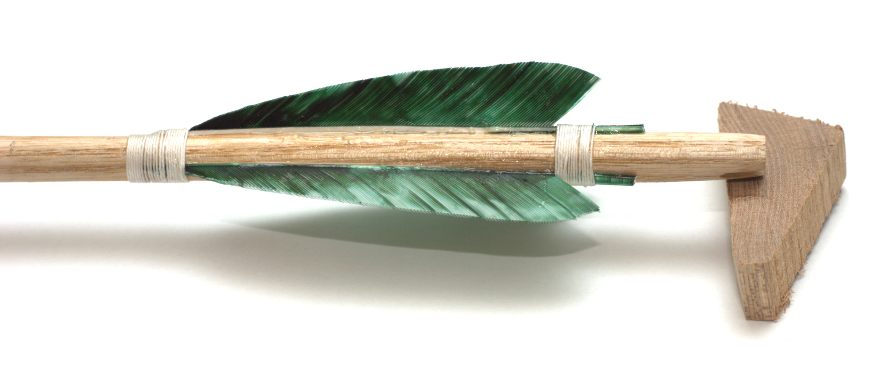 Fletching an arrow with bone glue. When applying the warm bone glue to both wood and feather the two parts can just be pressed together for a second and they will stick to each other (not much, but enough for putting around some string).